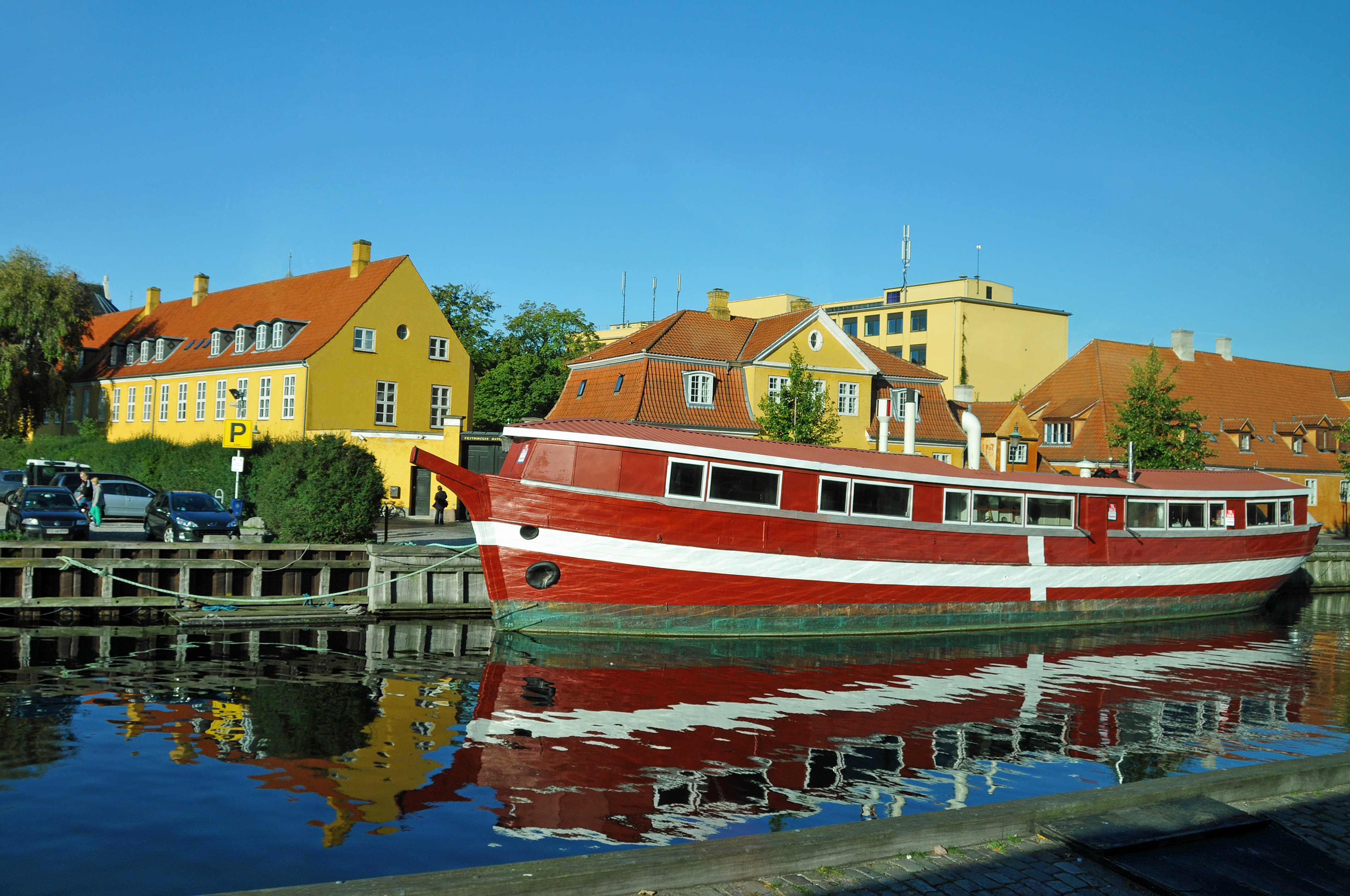 Buildings of the complex known as Fæstningens Materielgård at Frederiksholms Kanal in Copenhagen, Denmark